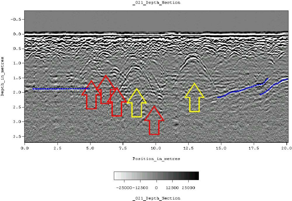 Ground-penetrating radar depth section (profile) collected on an historic cemetery in Alabama, USA. Yellow arrows indicate very distinct reflections, probably associated with human burials. "hyperbolic" reflections, appearing as an inverted U, are typically associated with discrete objects. Less distinct hyperbolic reflections are indicated by red arrows. dashed blue lines indicate horizontal and sloping reflectors, probably bedrock. The many smaller reflections near the surface are likely to be caused by tree roots. Because of the nature of the site, subsurface testing was not conducted, but these interpretations are supported by surface indications (grave markers and depressions) and with line-to-line patterning within the GPR data.